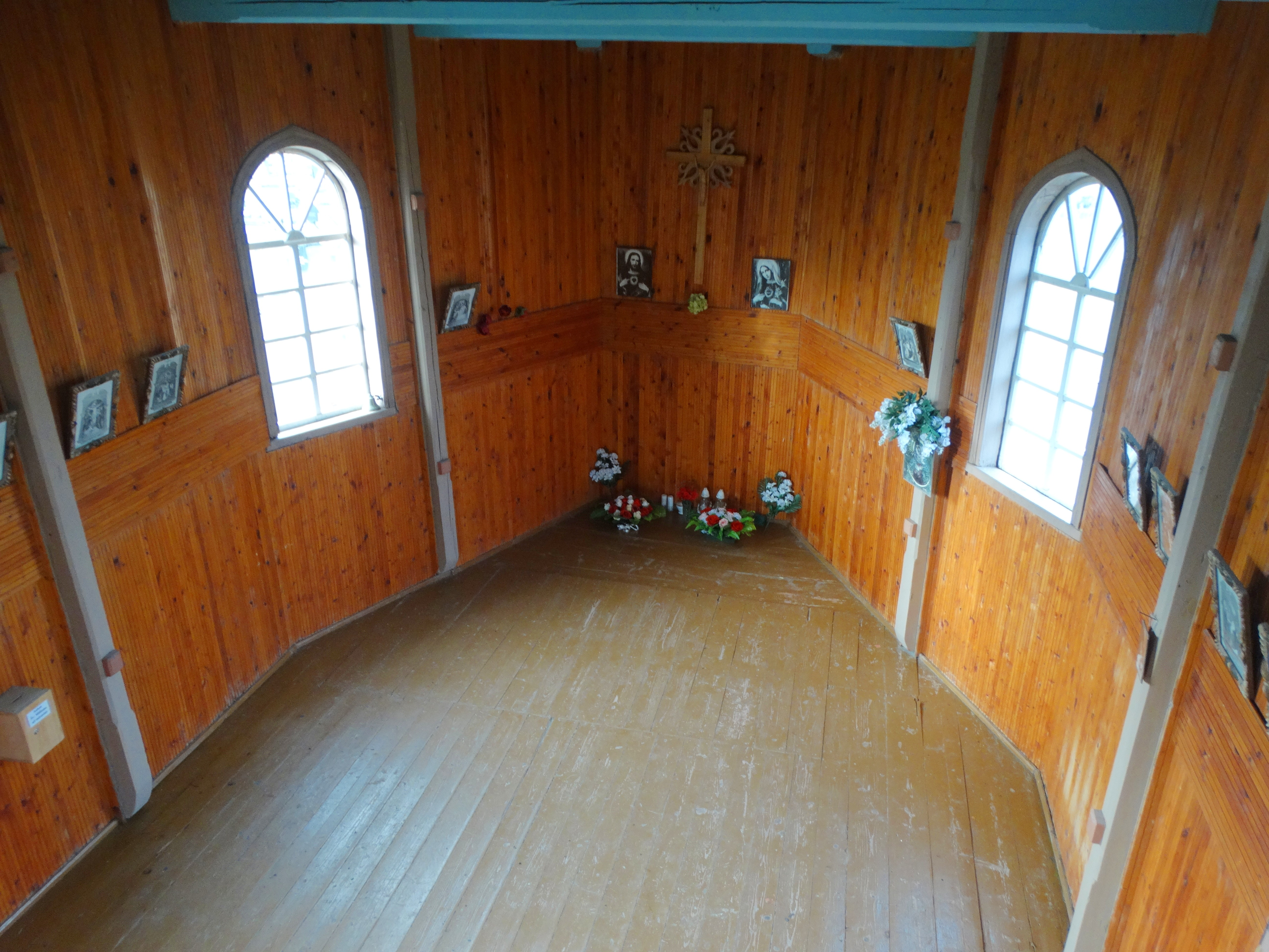 Cemetery chapel, Kvėdarna, Šilalė District, Lithuania